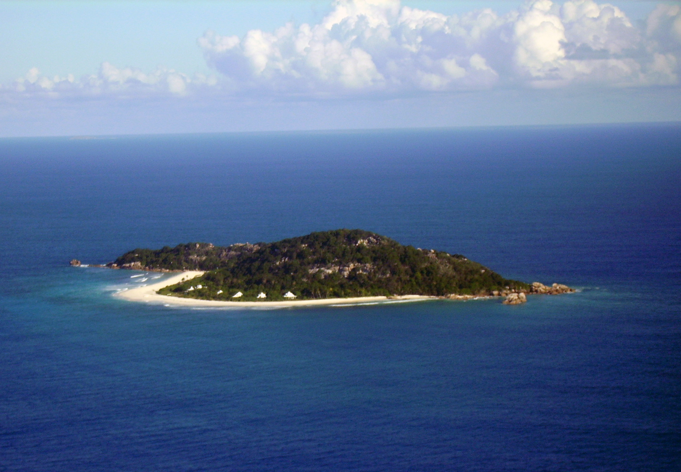 Cousine Island, Seychelles.